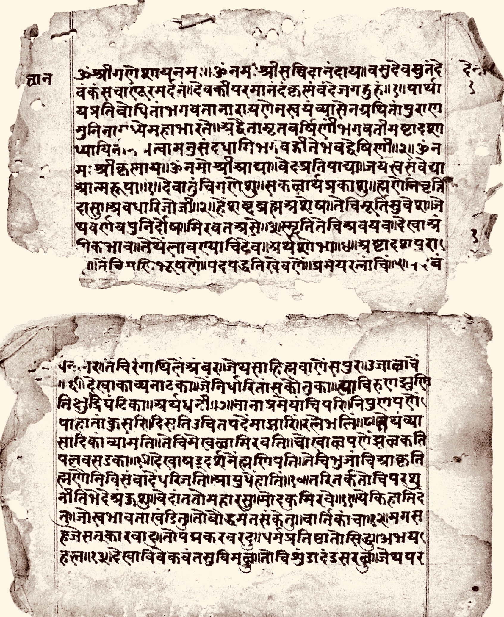 The Dnyaneshwari (Marathi: ज्ञानेश्वरी, Jñānēśvarī), also referred to as Jnanesvari, Jnaneshwari or Bhavartha Deepika is a commentary on the Bhagavad Gita written by the Marathi saint and poet Dnyaneshwar in 1290 CE. It is the oldest surviving literary work in the Marathi language. It is a commentary on the Hindu scripture the Bhagavad Gita, and an important text for the Varkari tradition of Hinduism. The first two pages of the manuscript are shown above. This manuscript was produced in 1765 Saka (1843 CE). The manuscript has 609 surviving pages, with 9 lines per page. Its edges are much decayed and damaged. The full text has about 9000 verses. This manuscript is a part of the joint digitization effort between the University of Arizona and the British Library, under the Endangered Archives Programme supported by Arcadia. This is a photograph of a 2D historic manuscript of a text published in the 13th-century and the manuscript produced in 1843. Wikimedia Commons licensing guidelines for PD-Art apply.